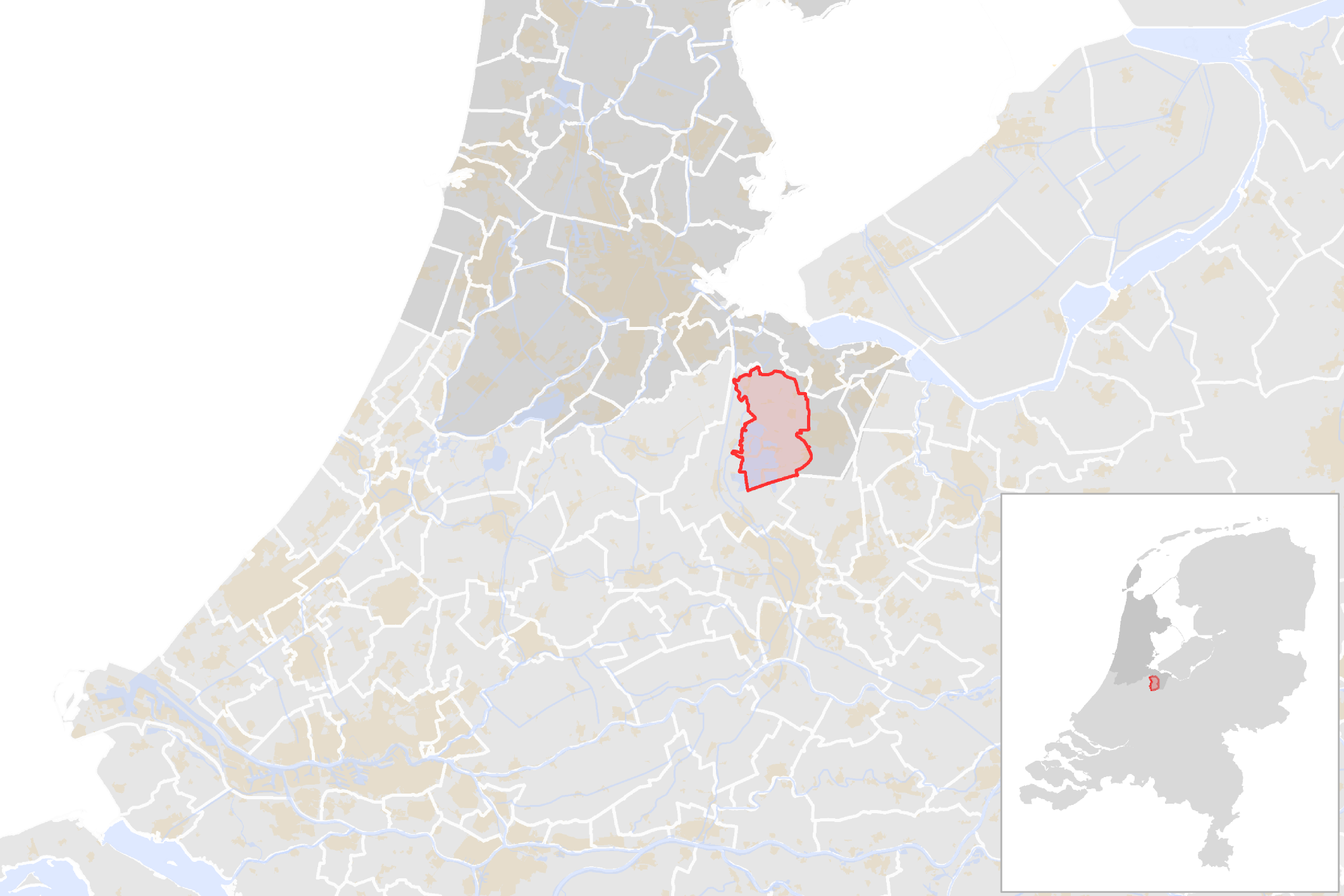 Locator map showing municipality boundary of one of the 390 Dutch municipalities (as of 2016)